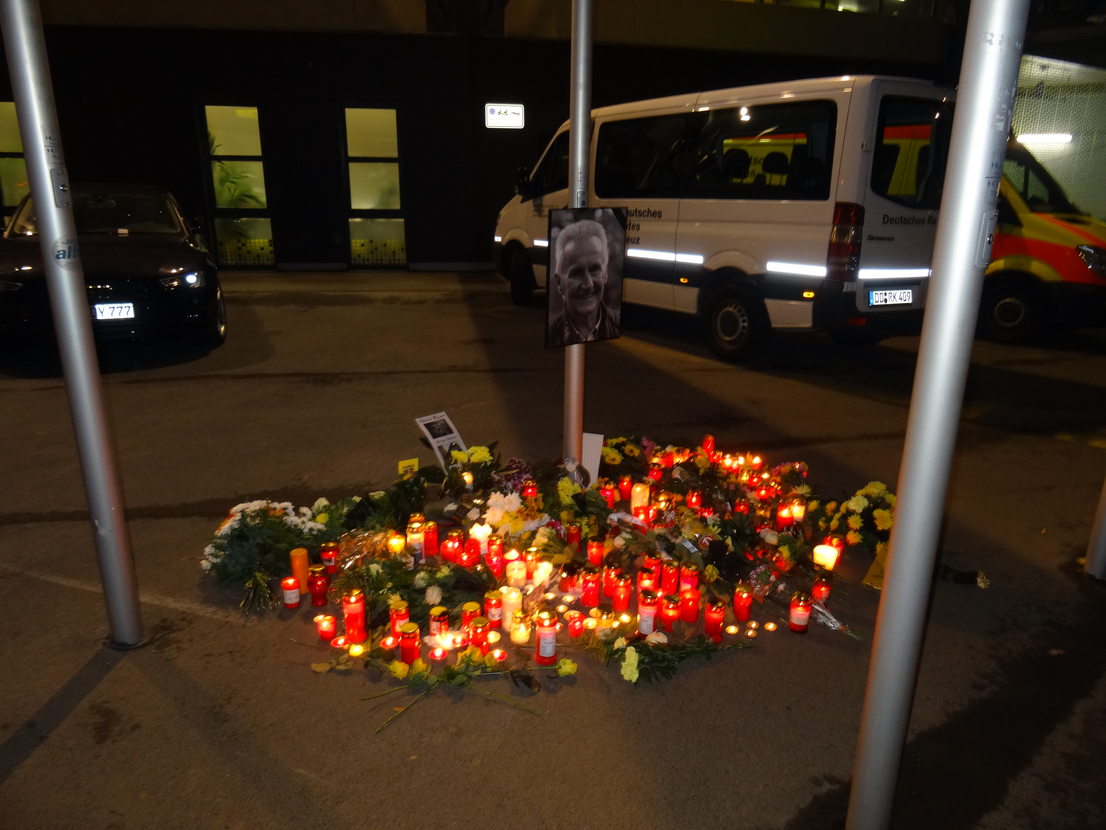 Dynamo Dresden and Reinhard Häfner and massively beer commercials. You should drink only alcohol by their meaning.